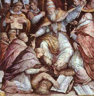 Pope Gregory IX painted in glory while excomunicating.